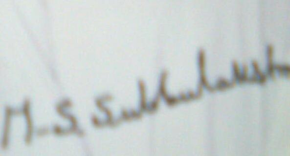 M S Subbulakshmi's autograph